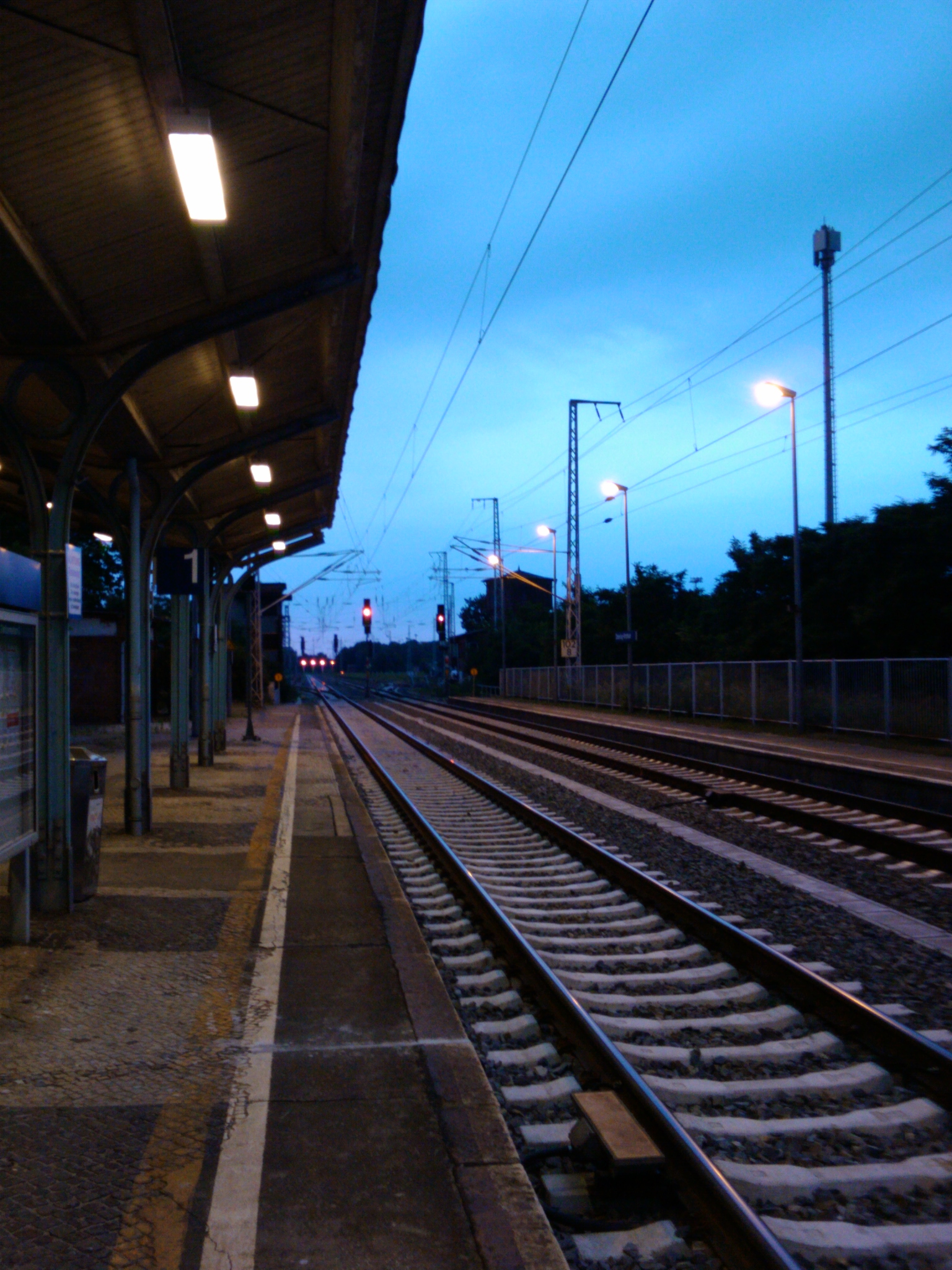 Station Doberlug-Kirchhain upper Track: Berlin-Dresden, km 102,9, towards Berlin